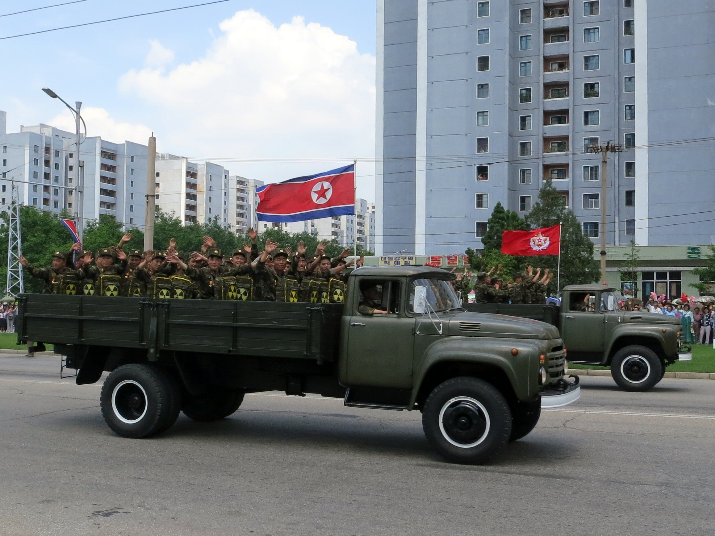 North Korea's nuclear backpack - North Korea Victory Day-2013